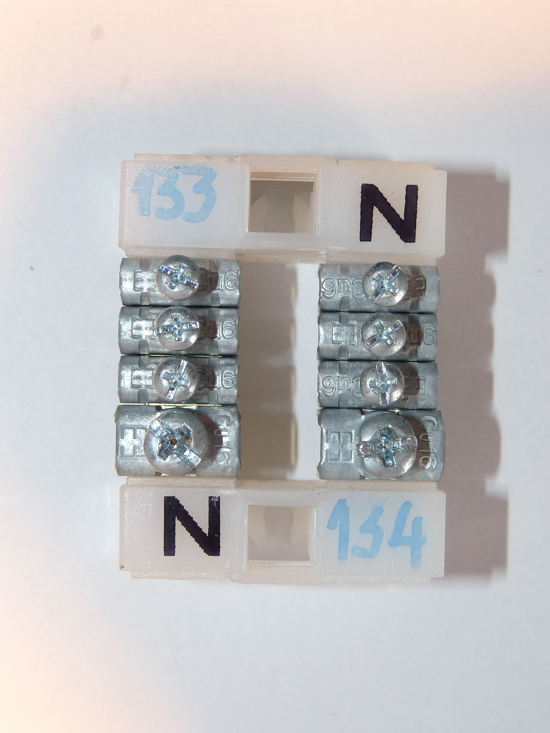 Separated busbar for zero-pole wires distribution.